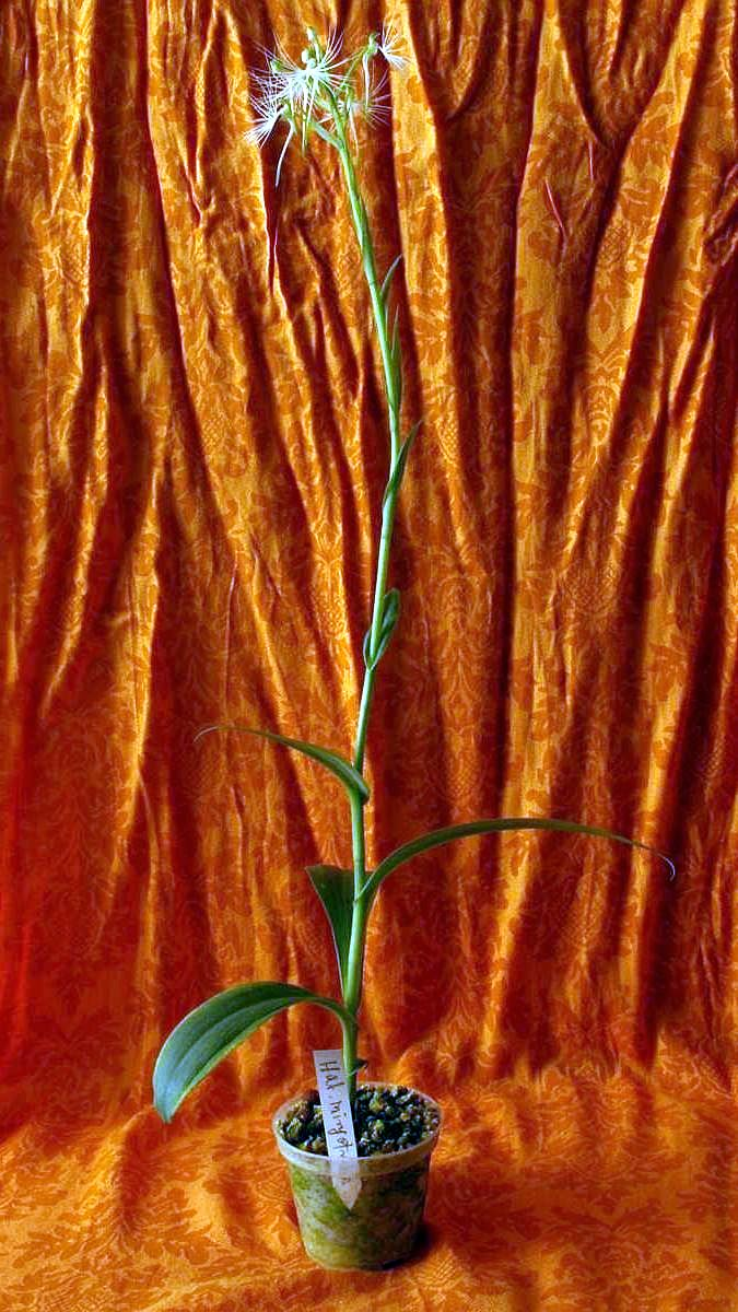 Complete plant of blooming Habenaria medusa